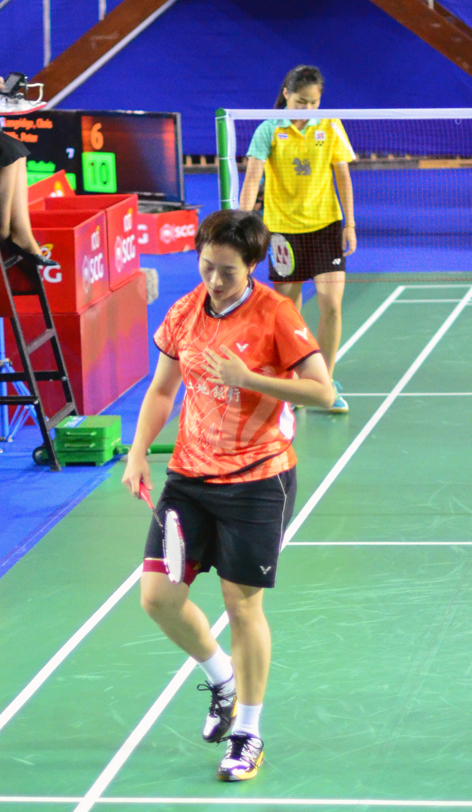 Pai & Ratchanok